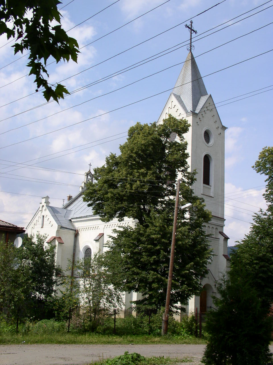 Church of Seven Sorrows of Our Lady. Skole, Ukraine.